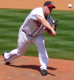 Picture I took on 5-10-07 08:29, 14 May 2007 . . Chrisjnelson . . 258×279 (123,447 bytes)